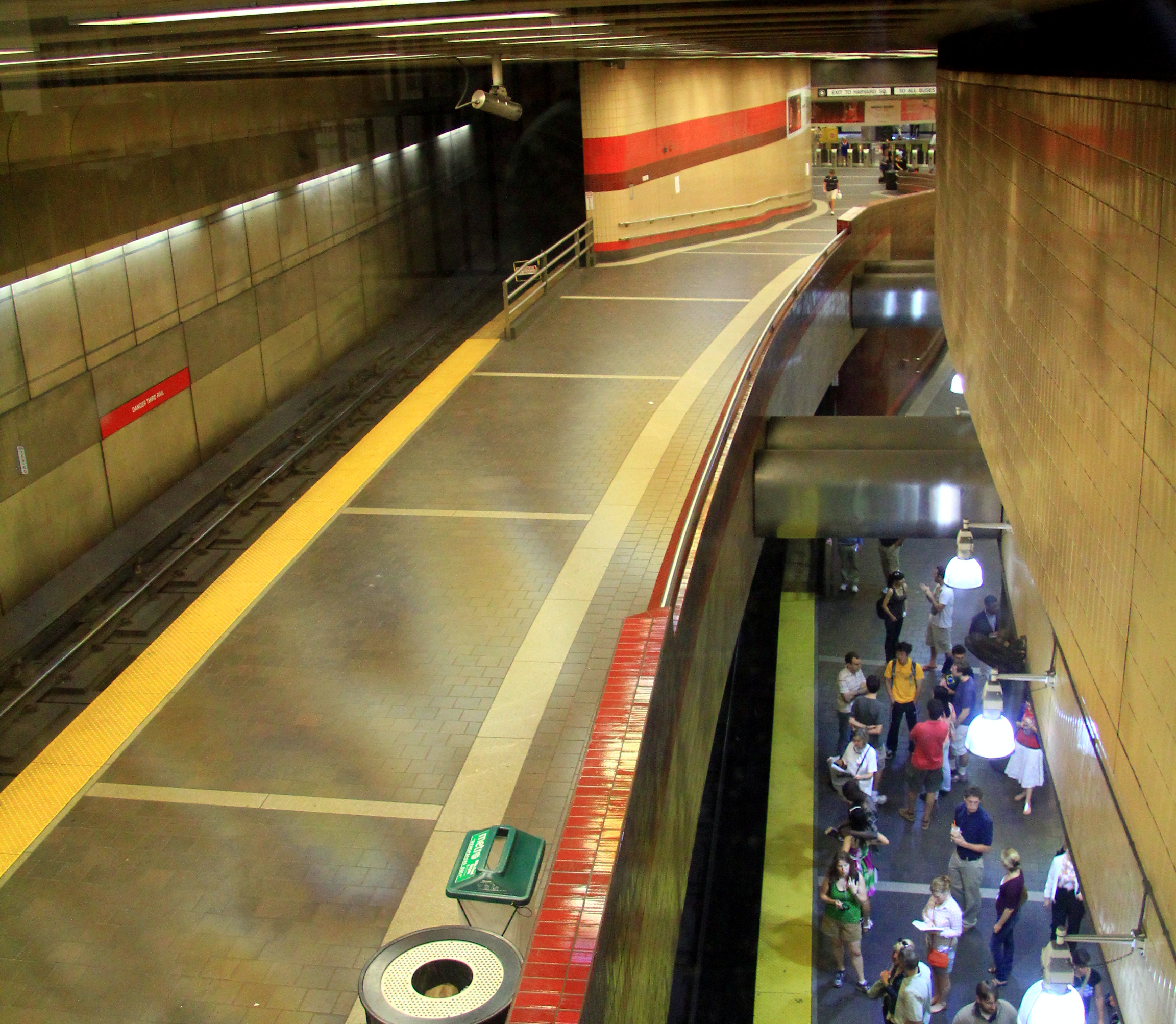 The MBTA Red Line platforms at Harvard Square are stacked, with the outbound platform on top. This view looks from the fare mezzanine of the secondary entrance from Church Street.